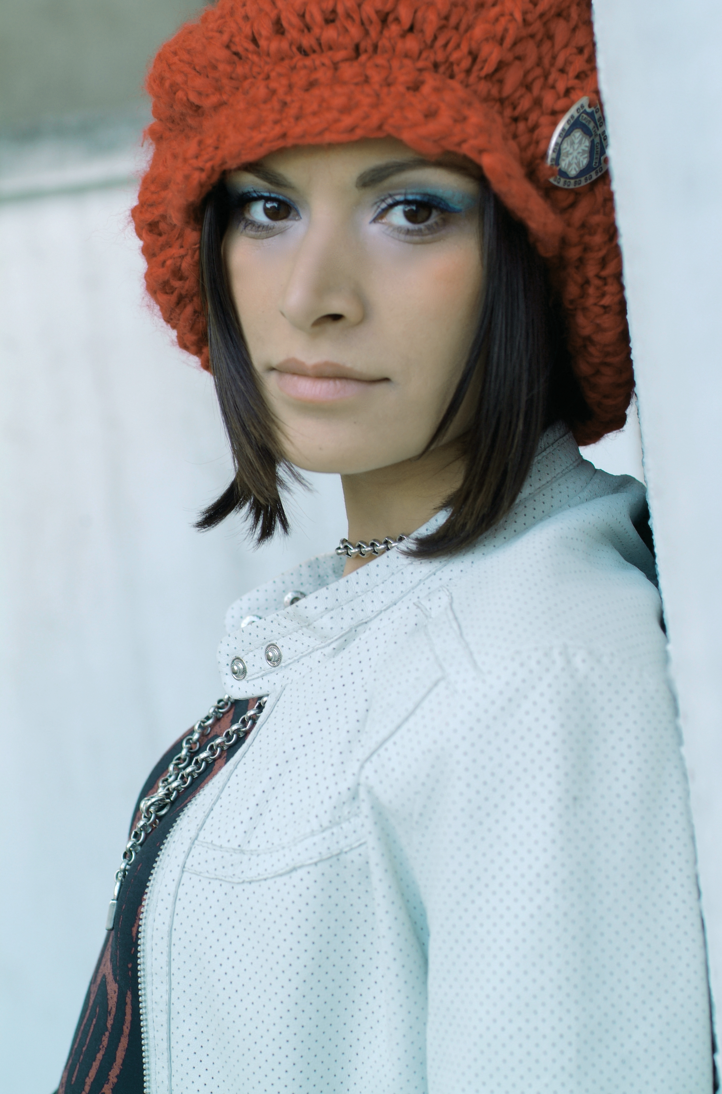 Tatjana Doedjevic - Cica